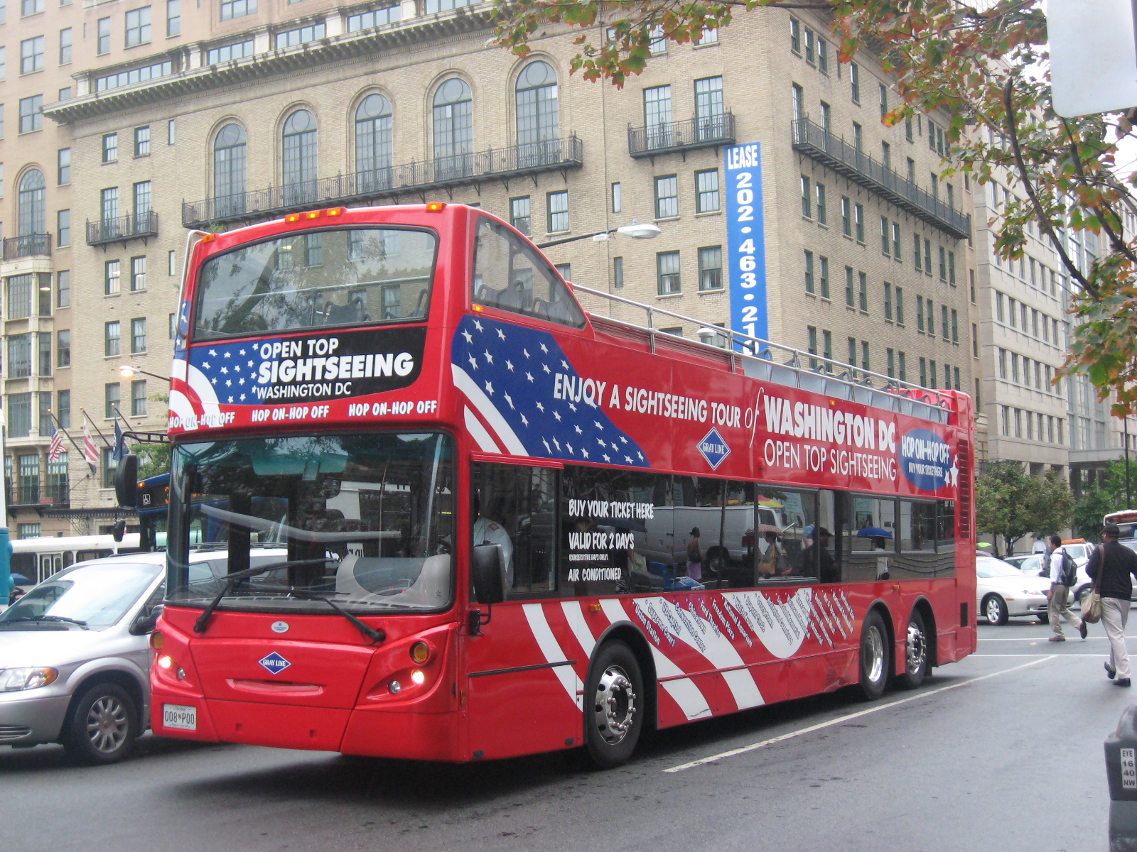 Grey Line Sightseeing